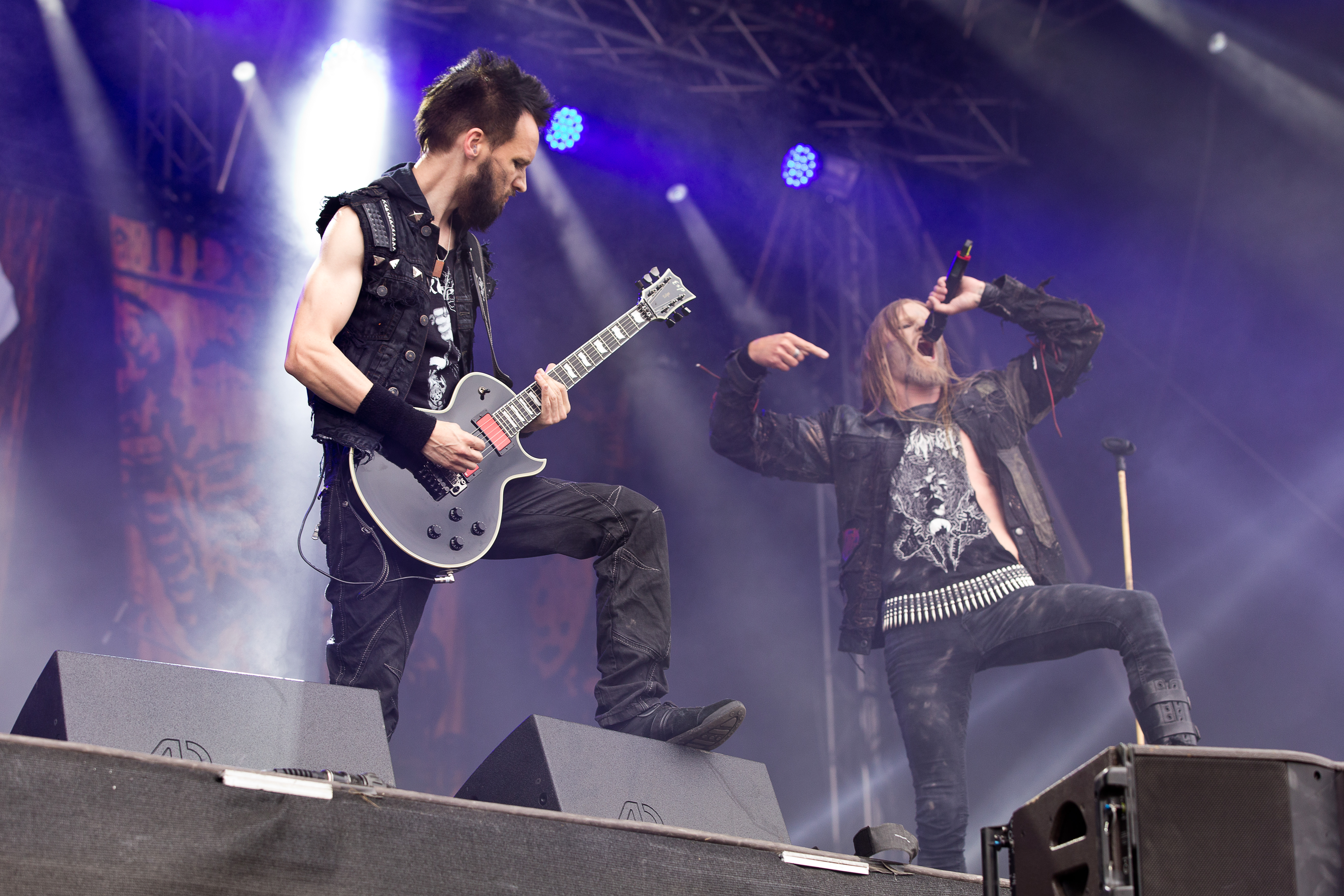 The Norwegian black metal band Kampfar at the Rockharz Open Air 2016 in Ballenstedt/Germany.